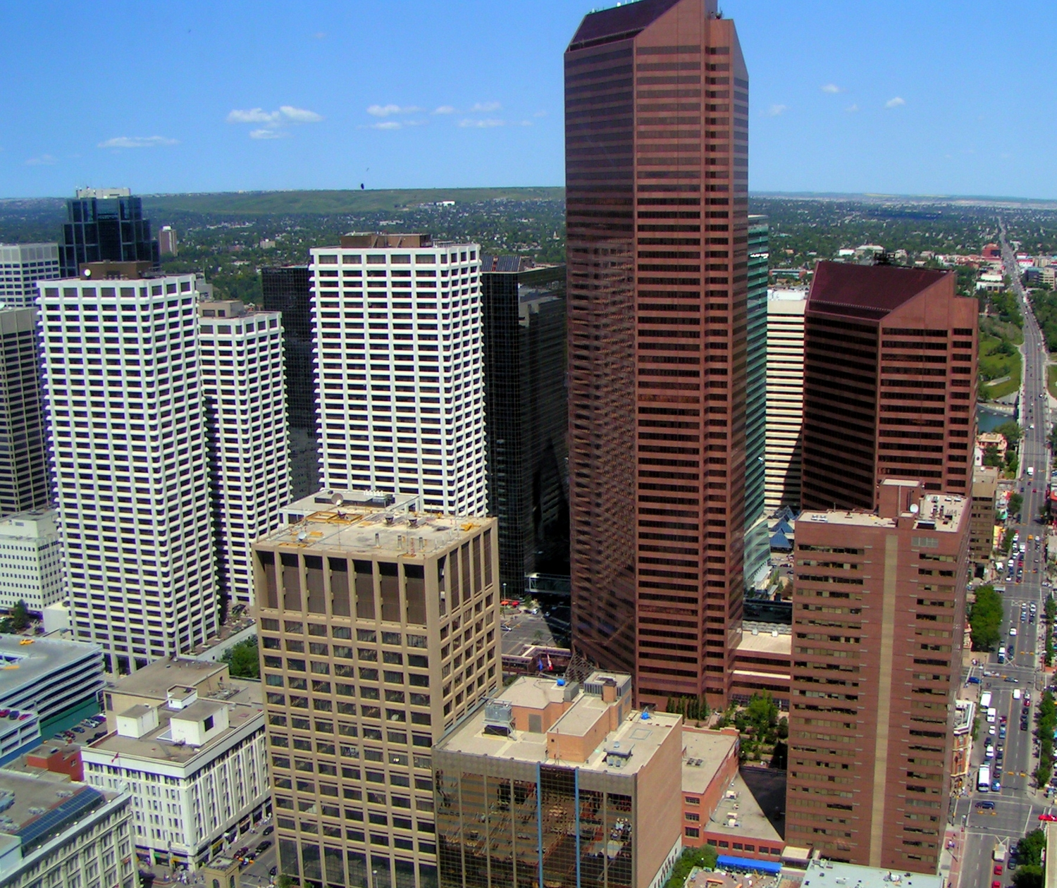 View from Calgary Tower, Calgary, Alberta, Canada, with Petro-Canada Centre at the right and Bow Valley Square at the left